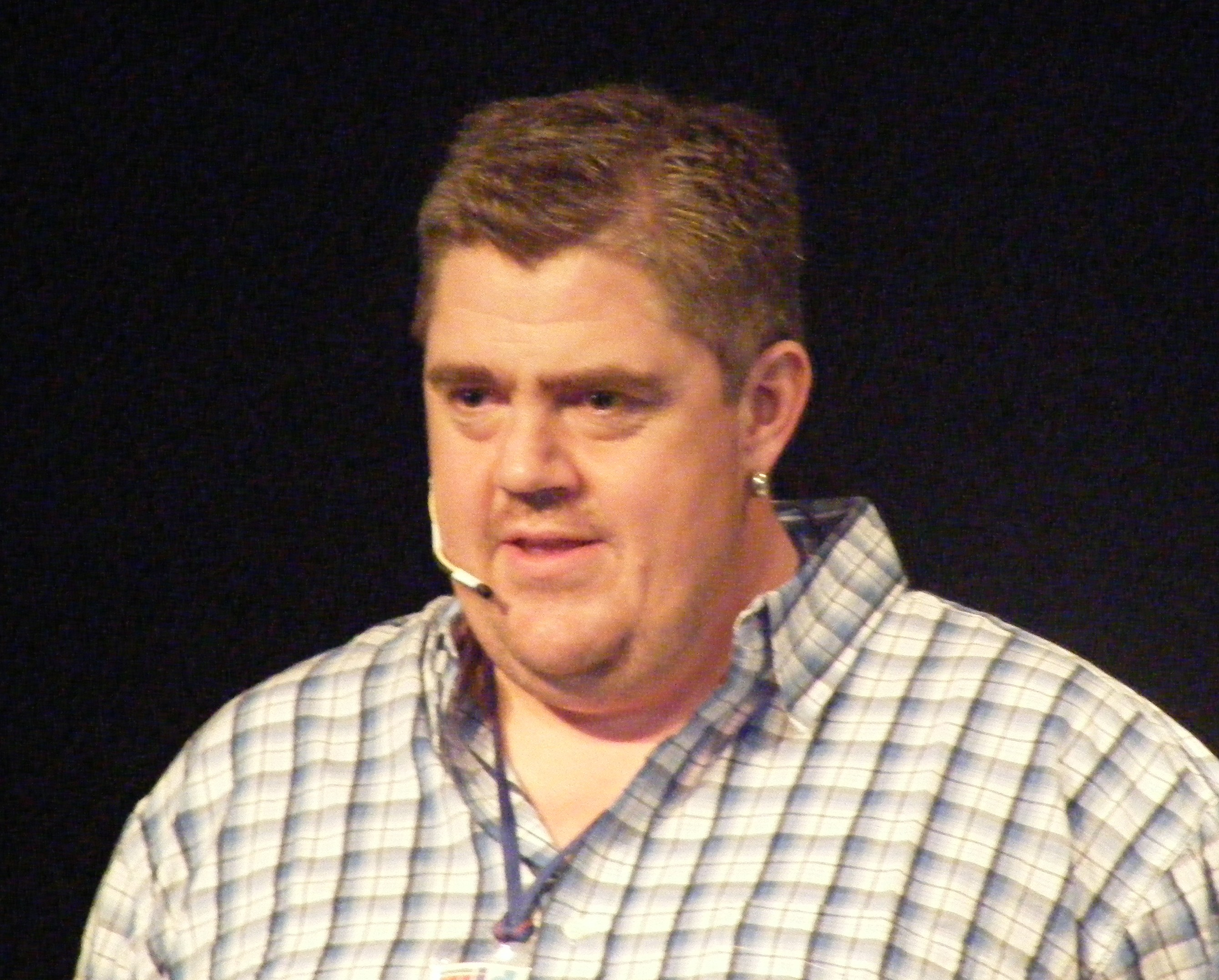 Phill Jupitus at the Glastonbury Festival June 2009